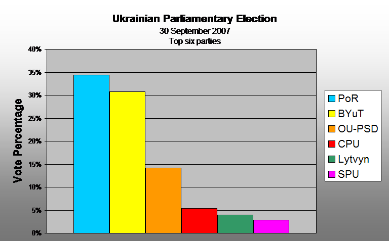 Ukrainian parliamentary election, 2007.